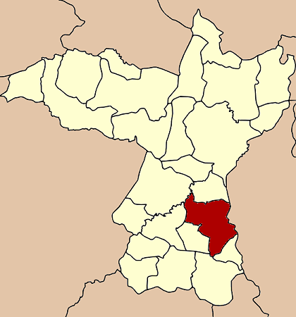 Map of Khon Kaen Province, Thailand, highlighting the district Ban Phai (อำเภอบ้านไผ่)